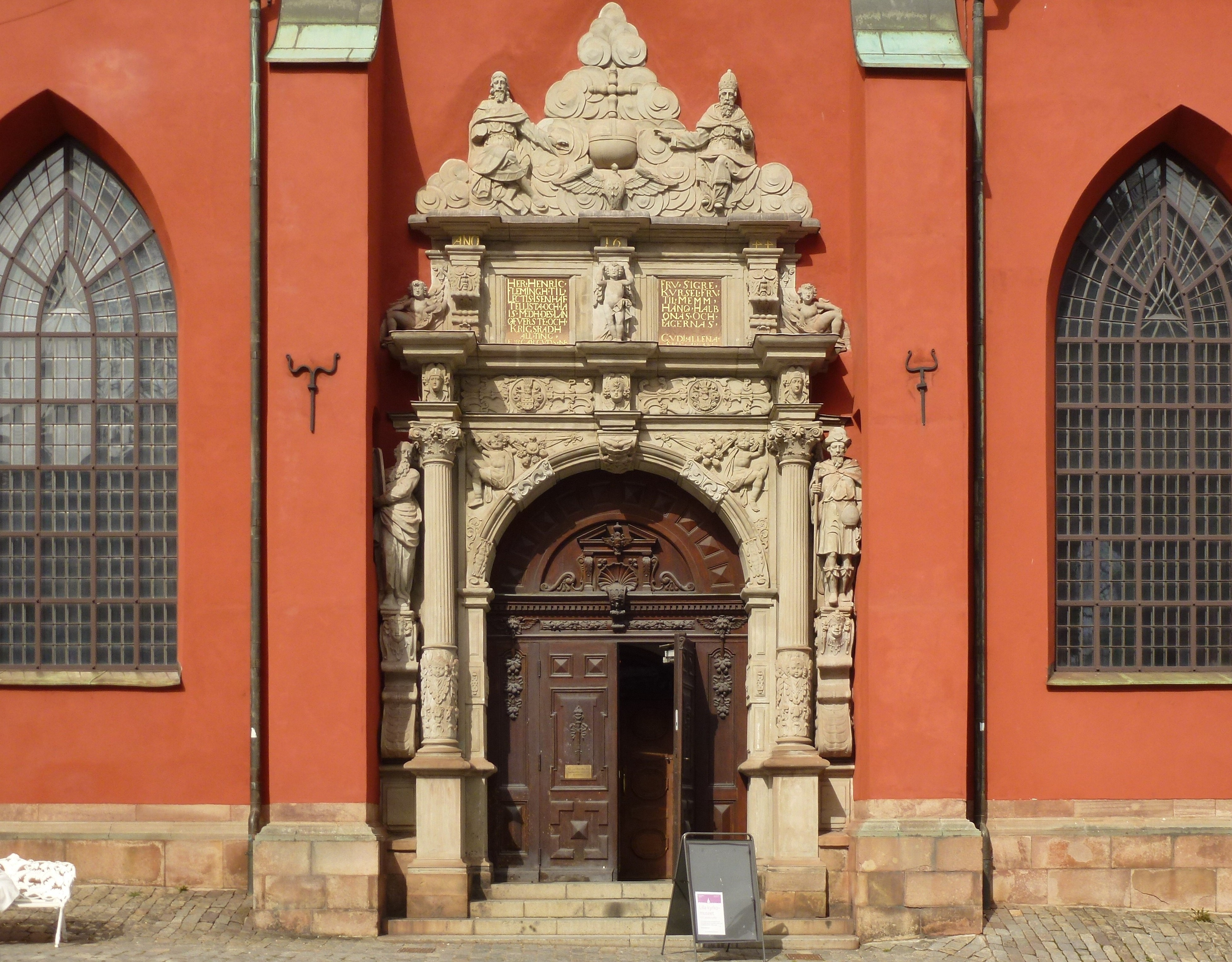 The Southern Portal of St. Jacobs Church, built in German-Dutch Renaissance style by the German sculptor Henrik Blume (Heinrich Blume) (dead 1648). This portal, and the church's two other portals, to the north and to the west, were built in 1643-1644.